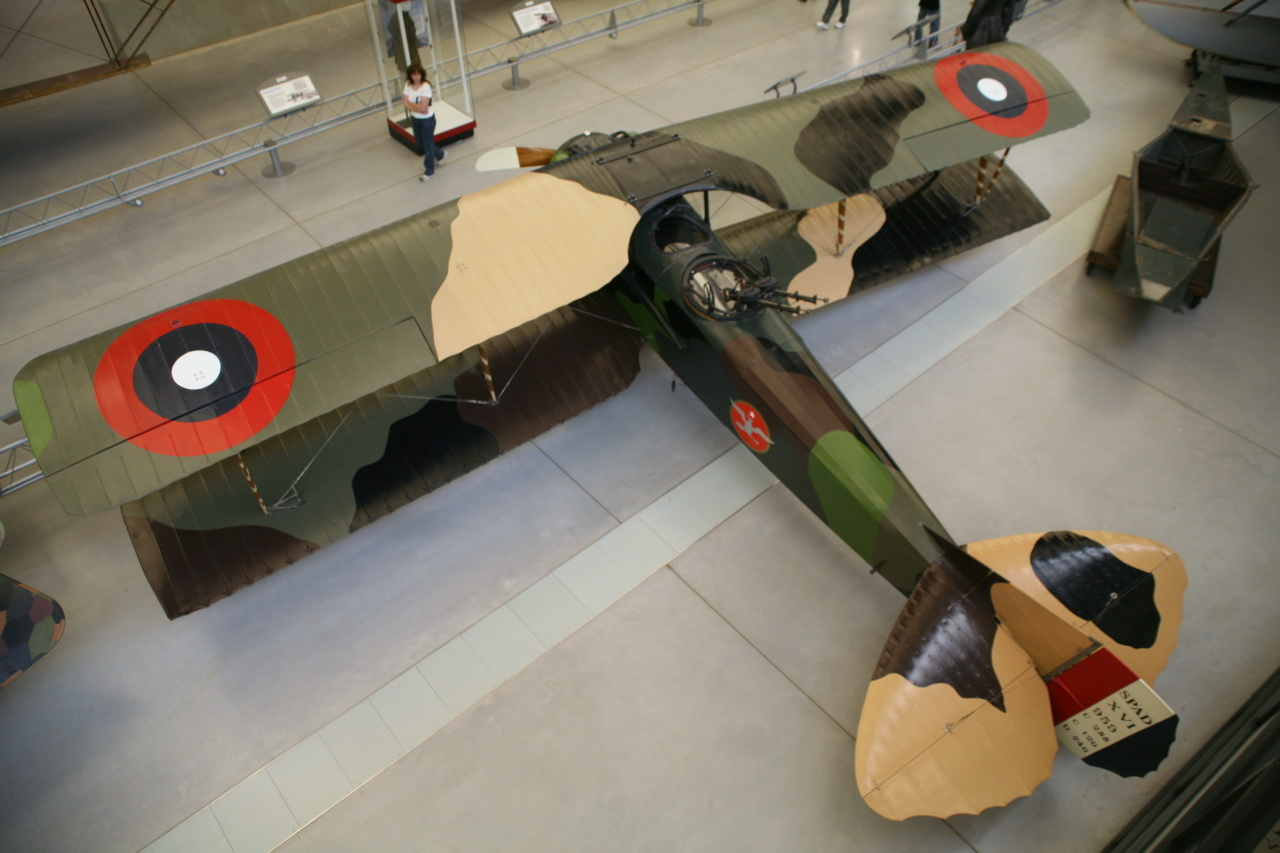 Single-engine, two-seat, French-built World War I reconnaissance and bomber aircraft; 240-horsepower Lorraine-Dietrich 8Bb engine. Green, gray, and brown camouflage finish upper surfaces. Gray under surfaces.